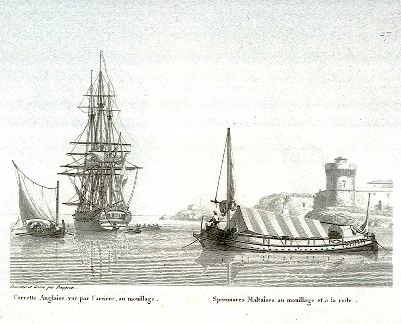 engraving, in a plate from a book; 147 mm x 202 mm. Caption (translated): British Royal Navy sloop at anchor, viewed from behind, and two Maltese speronares, one at anchor and one under sail